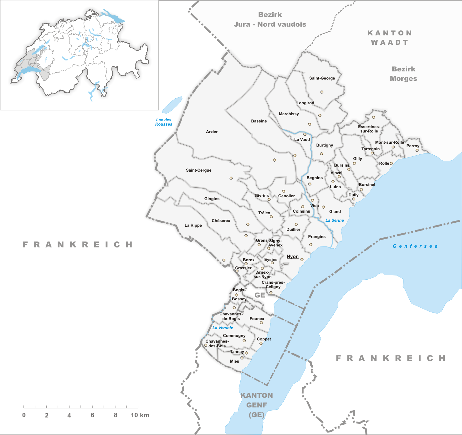 Municipalities of District Nyon from 2008